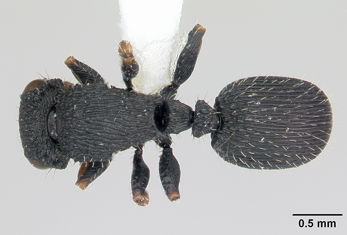 Dorsal view of ant Cataulacus striativentris specimen casent0178290.